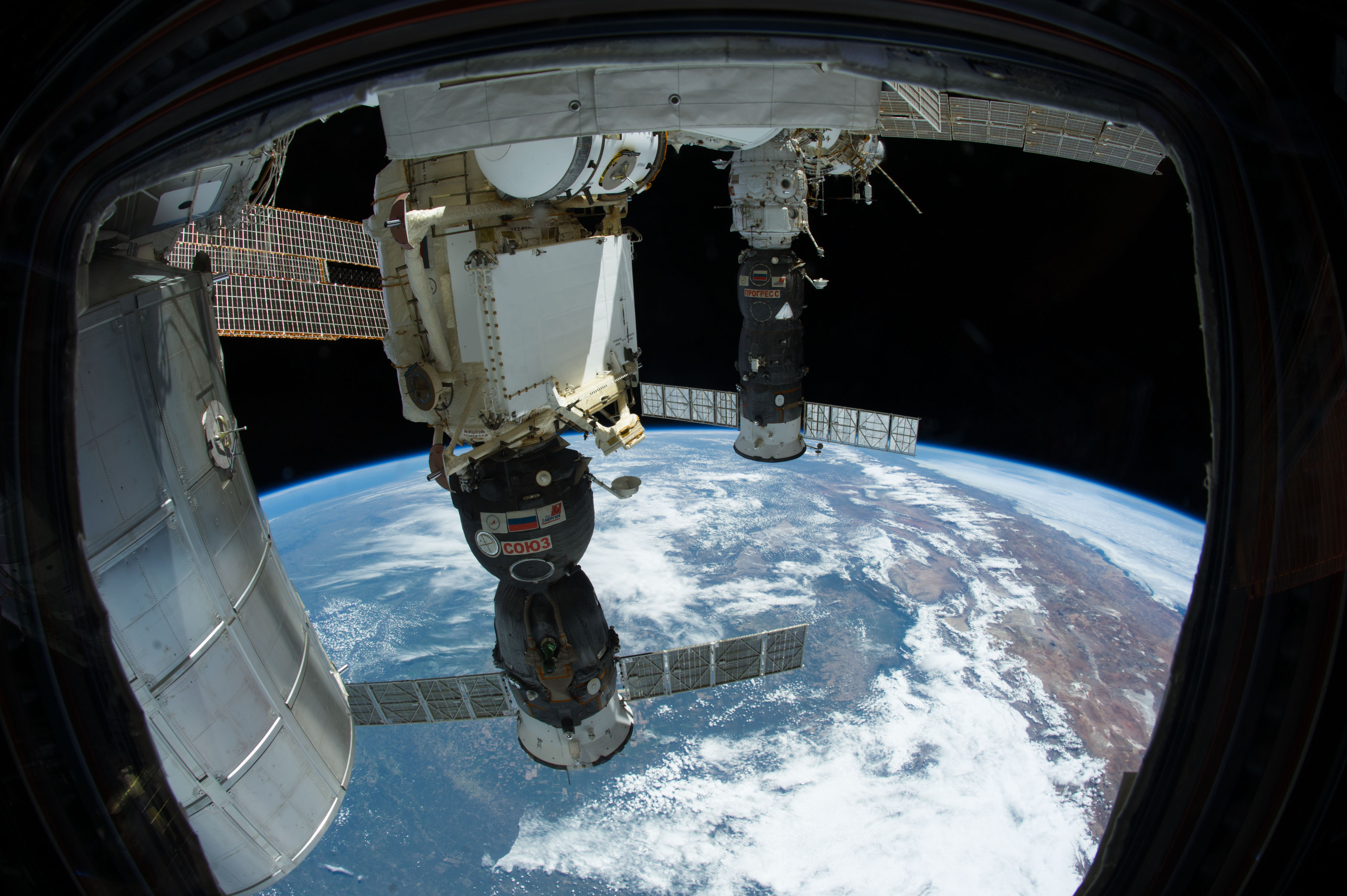 The Permanent Multipurpose Module (PMM), the Soyuz 37 (TMA-11M) spacecraft (center) docked to the Rassvet Mini-Research Module 1 (MRM1) and the Progress 52 resupply vehicle (background) docked to the Pirs Docking Compartment are featured in this image photographed by an Expedition 38 crew member from a window in the Cupola of the International Space Station. A blue and white part of Earth provides the backdrop for the scene.